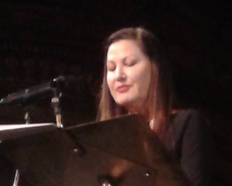 Liliana Komorowska photographed in Montréal, Québec, Canada at the St. Jean Baptiste Church.